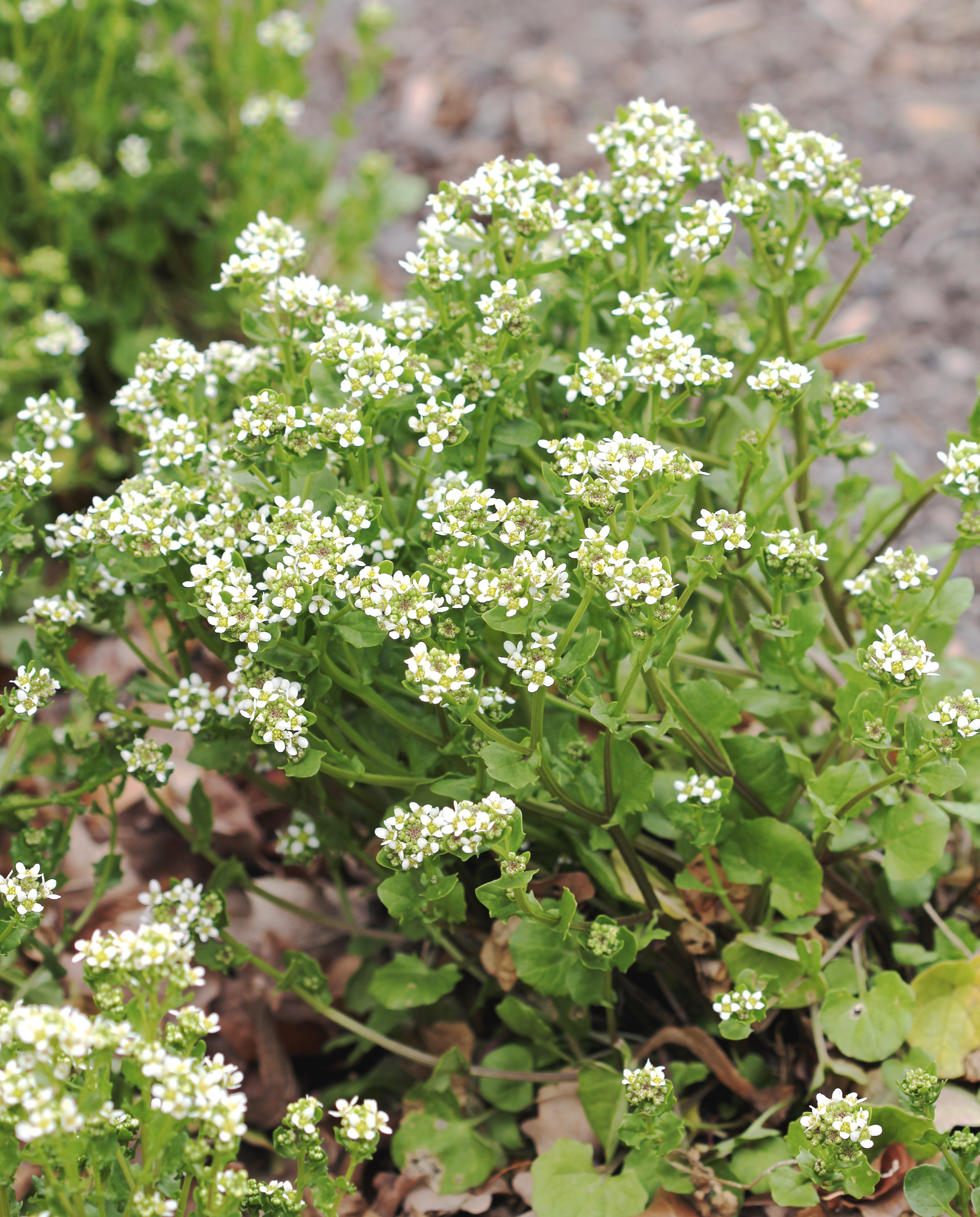 Flowering plants Cochlearia officinalis, (Cochlearia officinalis) from the Botanical Gardens of Charles University, Prague, Czech Republic